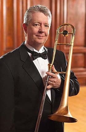 Trombonist Jim Pugh.